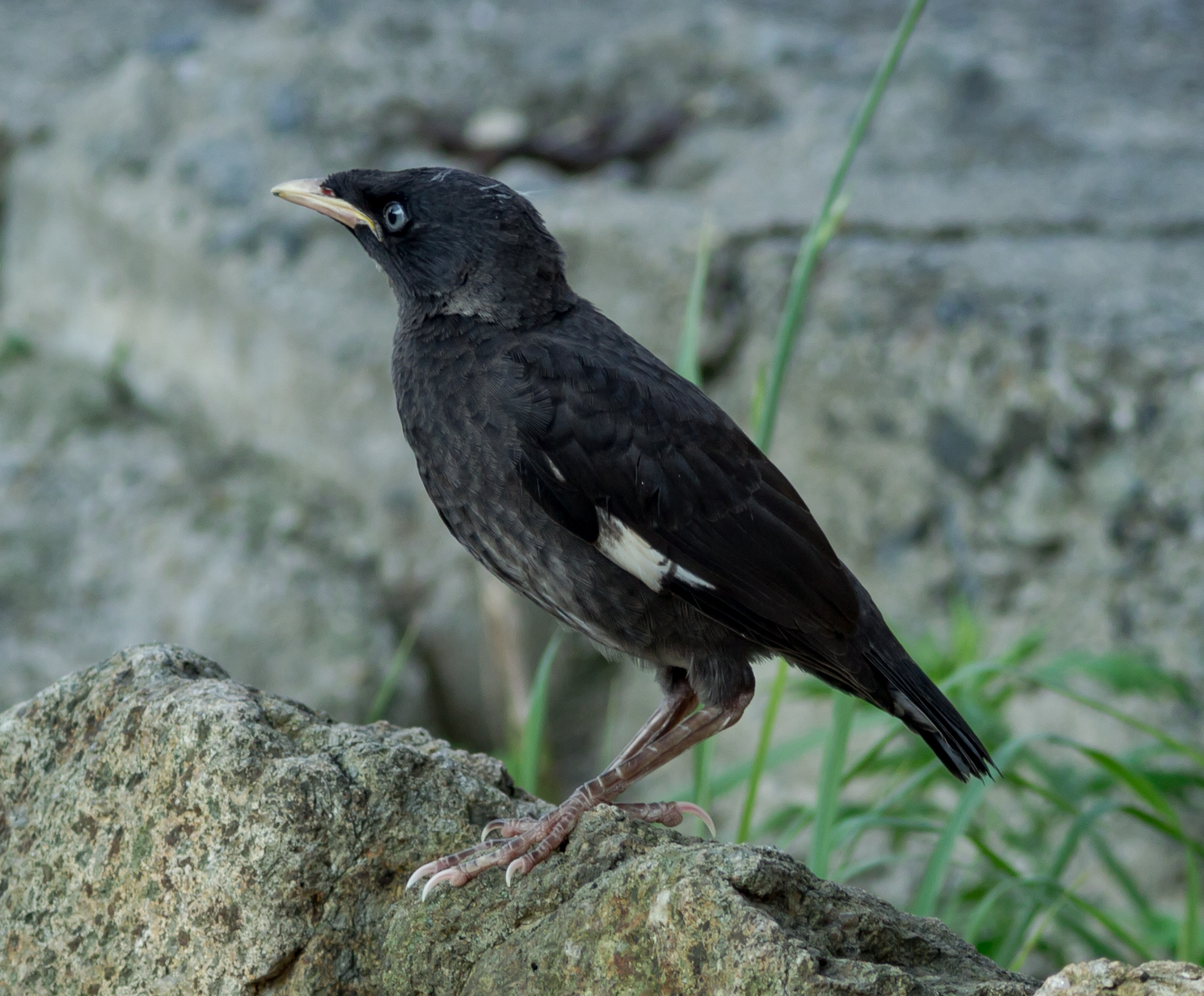 Crested myna (fledgling), taken at Osaka Japan.